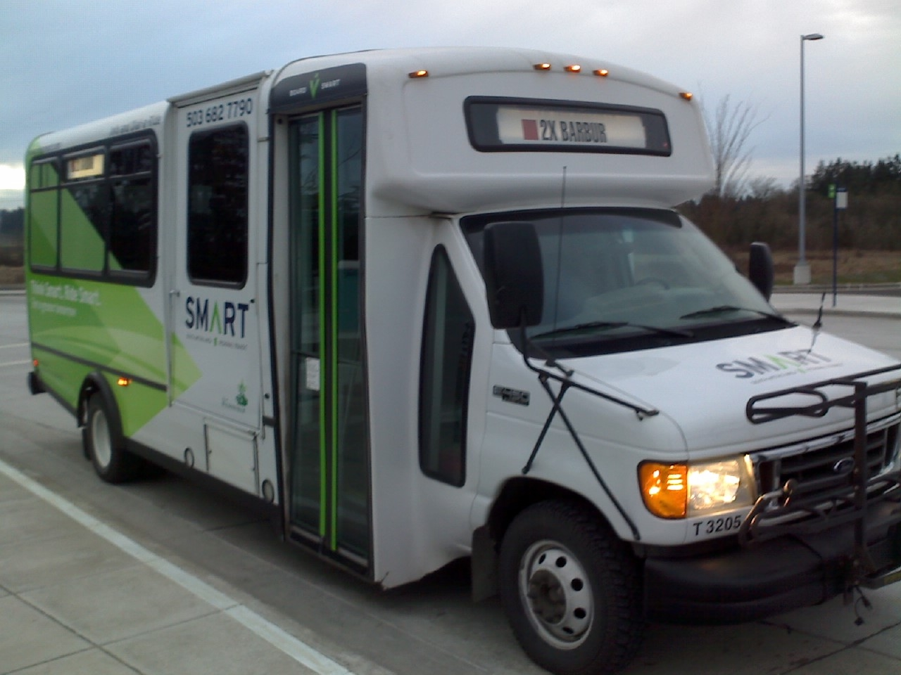 South Metro Area Regional Transit bus T3205